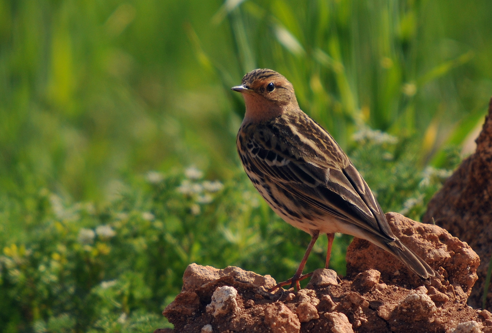 Red-thorated pipit...